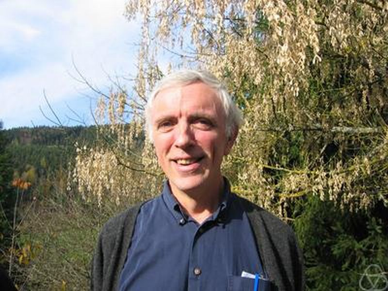 Craig Fraser, Oberwolfach 2004